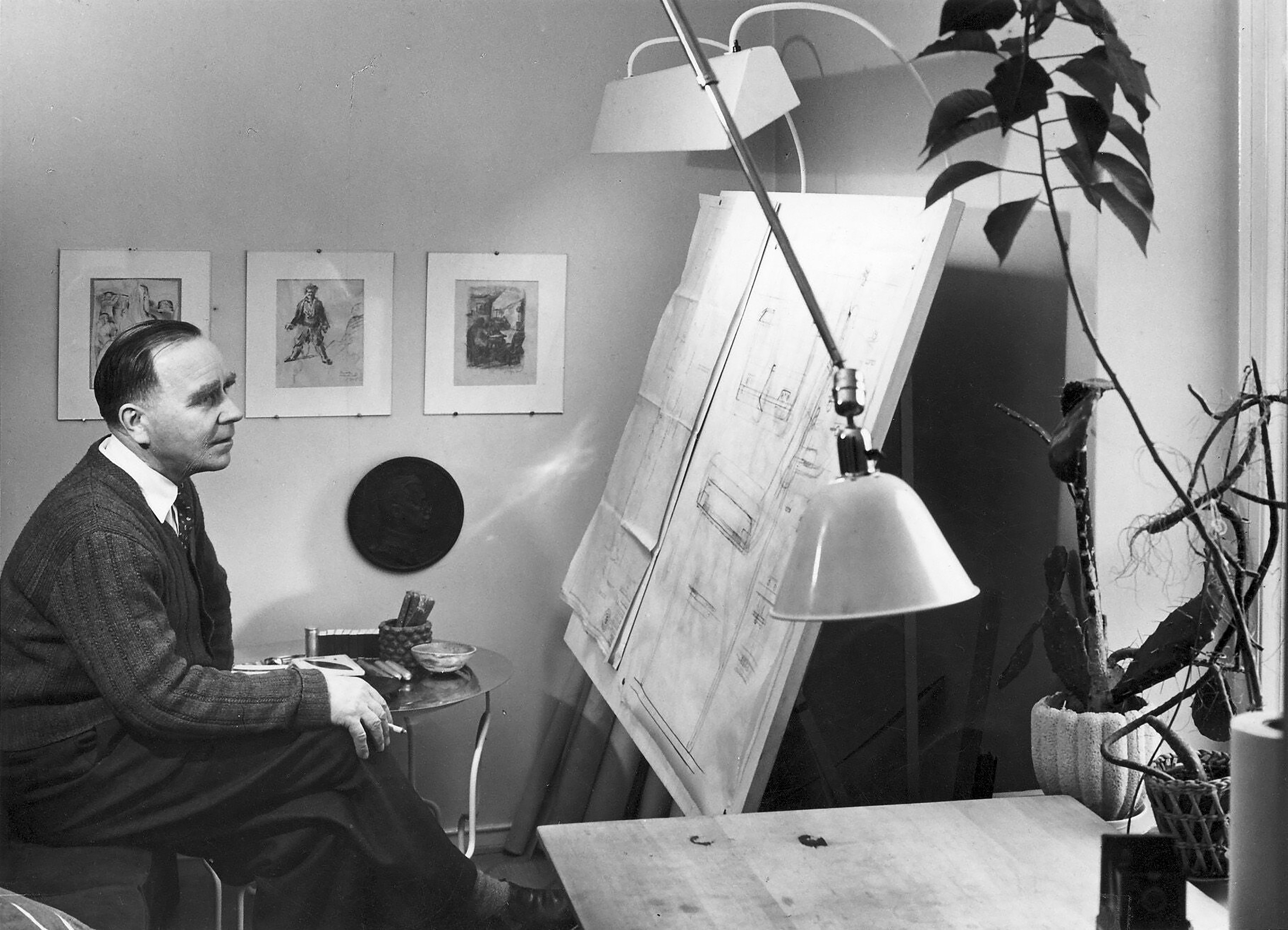 Photograph of the Finnish designer Paavo Tynell (1890–1973).